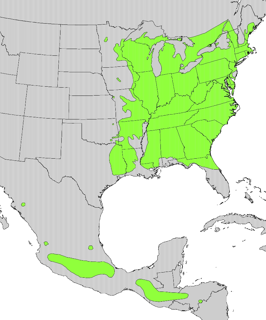 Natural range of American Hornbeam (Carpinus caroliniana). Digital representation of "Atlas of United States Trees" by Elbert L. Little, Jr. 1999. U.S. Geological Survey. [1]